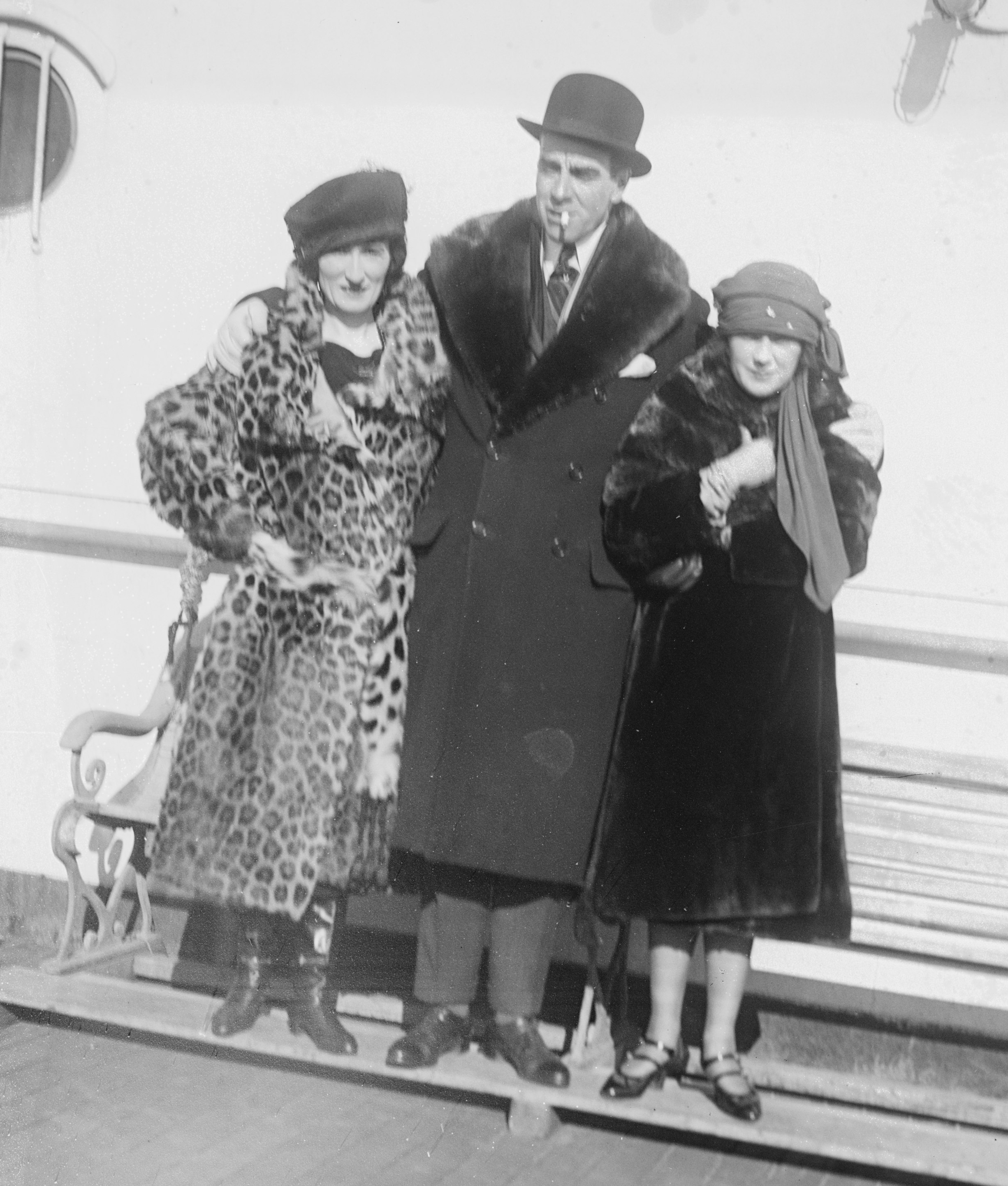 Title: Grahame-White & family Abstract/medium: 1 negative : glass ; 5 x 7 in. or smaller.